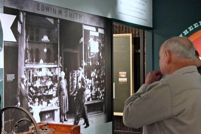 Photograh taken in the Voyager New Zealand Maritime Museum - Immigrants Exhibition, Edwin Henry Smith - The Embankment Shop, Plymouth